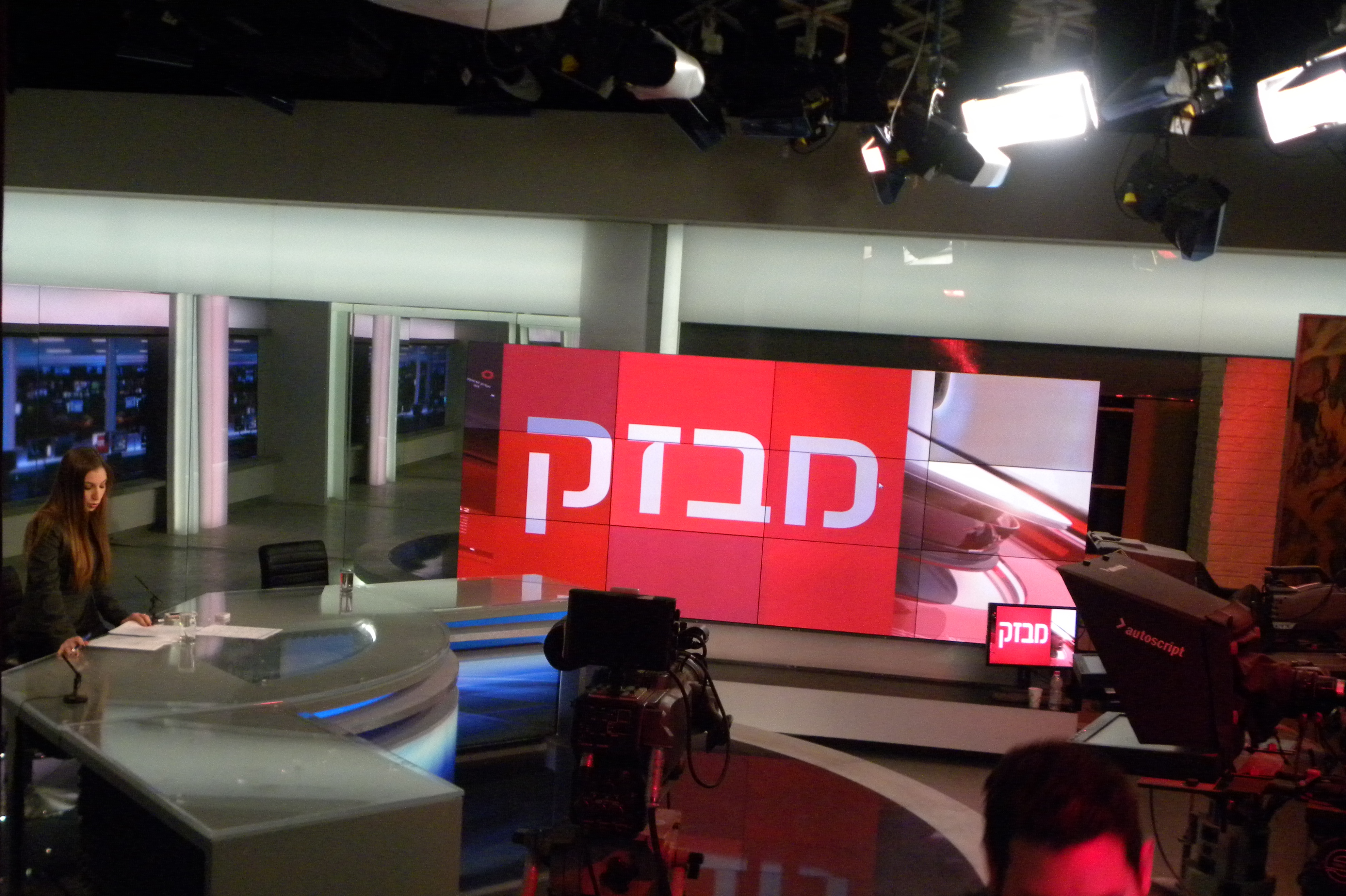 Israel Broadcasting Authority's HD1 studio, in Romena, Jerusalem